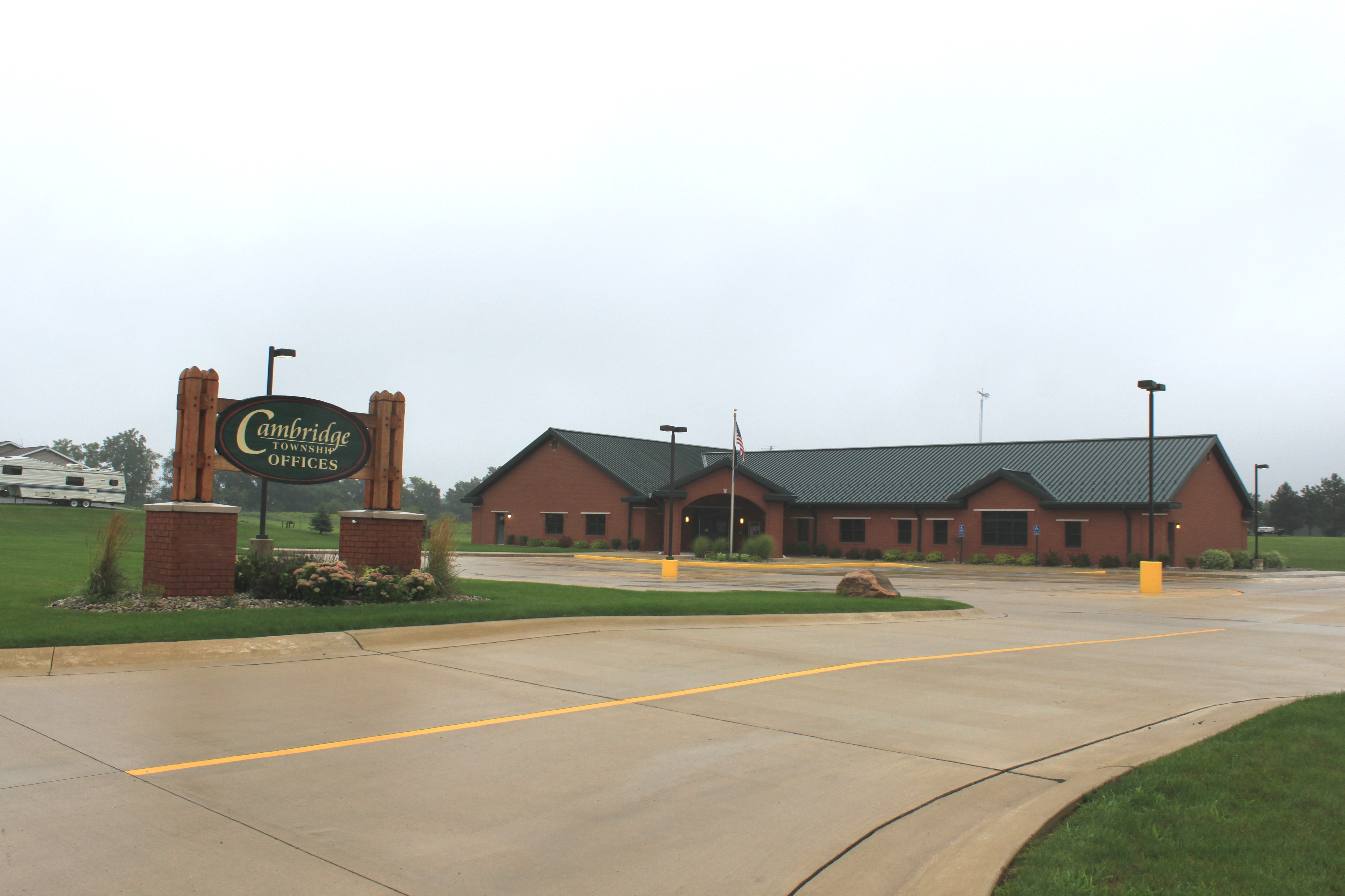 Cambridge Township Offices, 9990 M-50 (intersection of M-50 & Onsted Highway), Michigan.